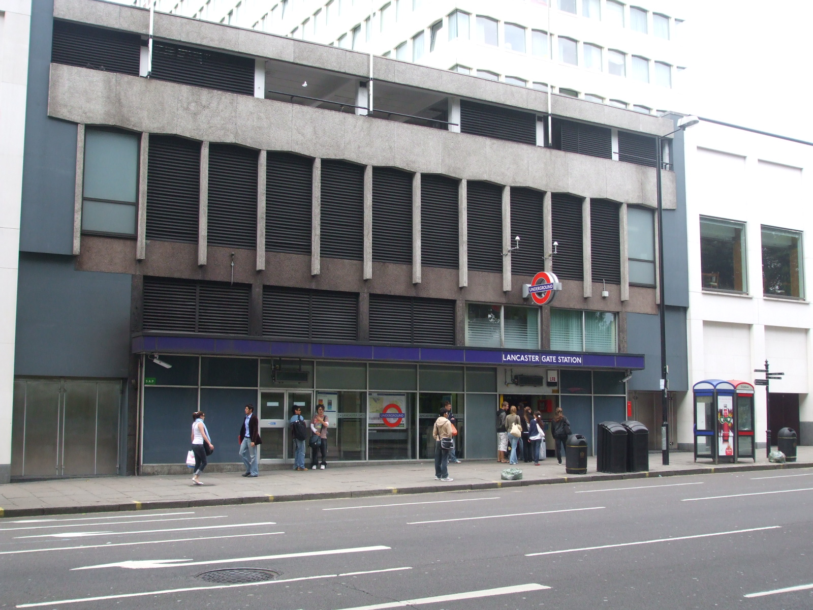 Lancaster Gate tube station